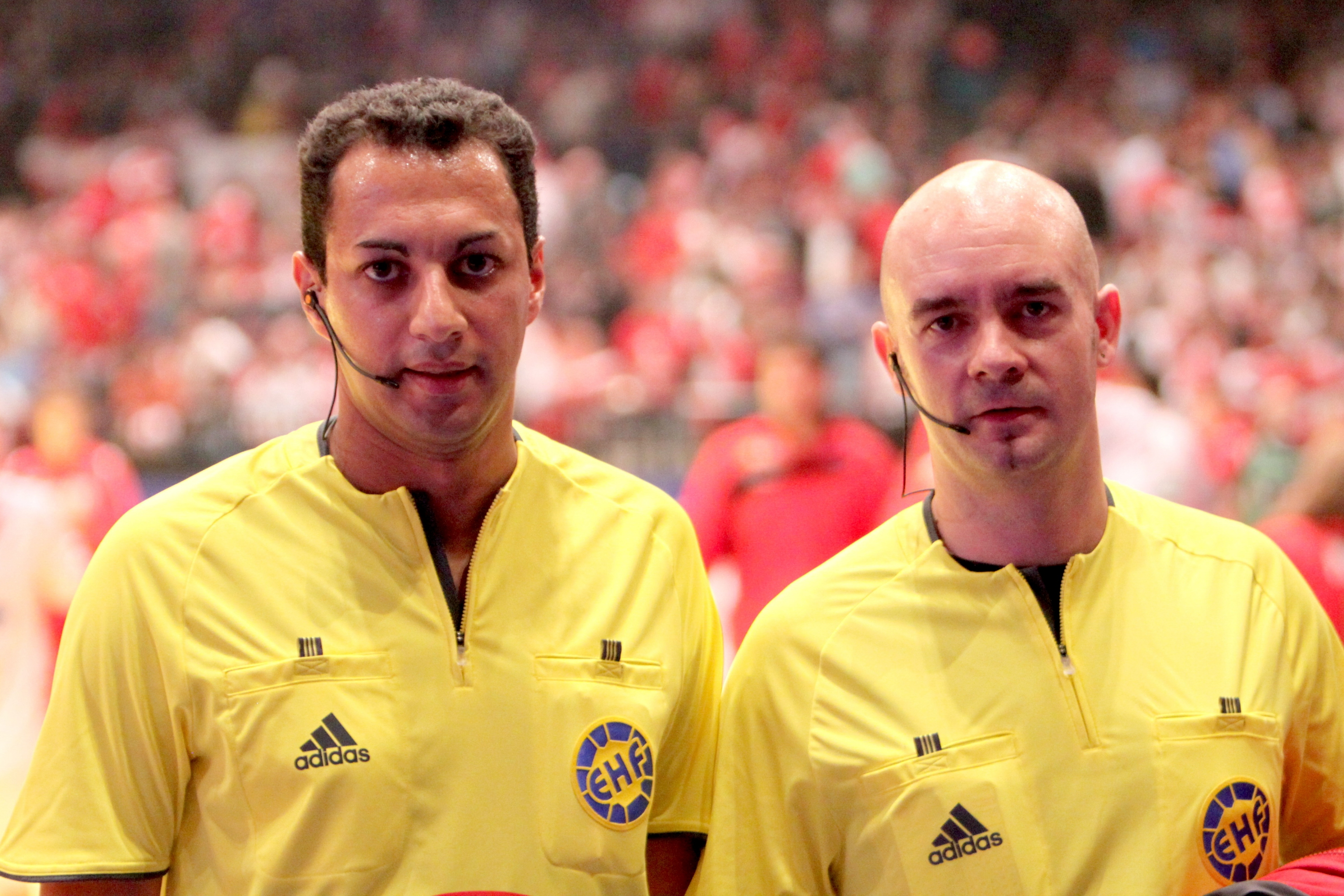 Nordine Lazaar (left) and Laurent Reveret (France), Referees of the 2010 European Men's Handball Championship